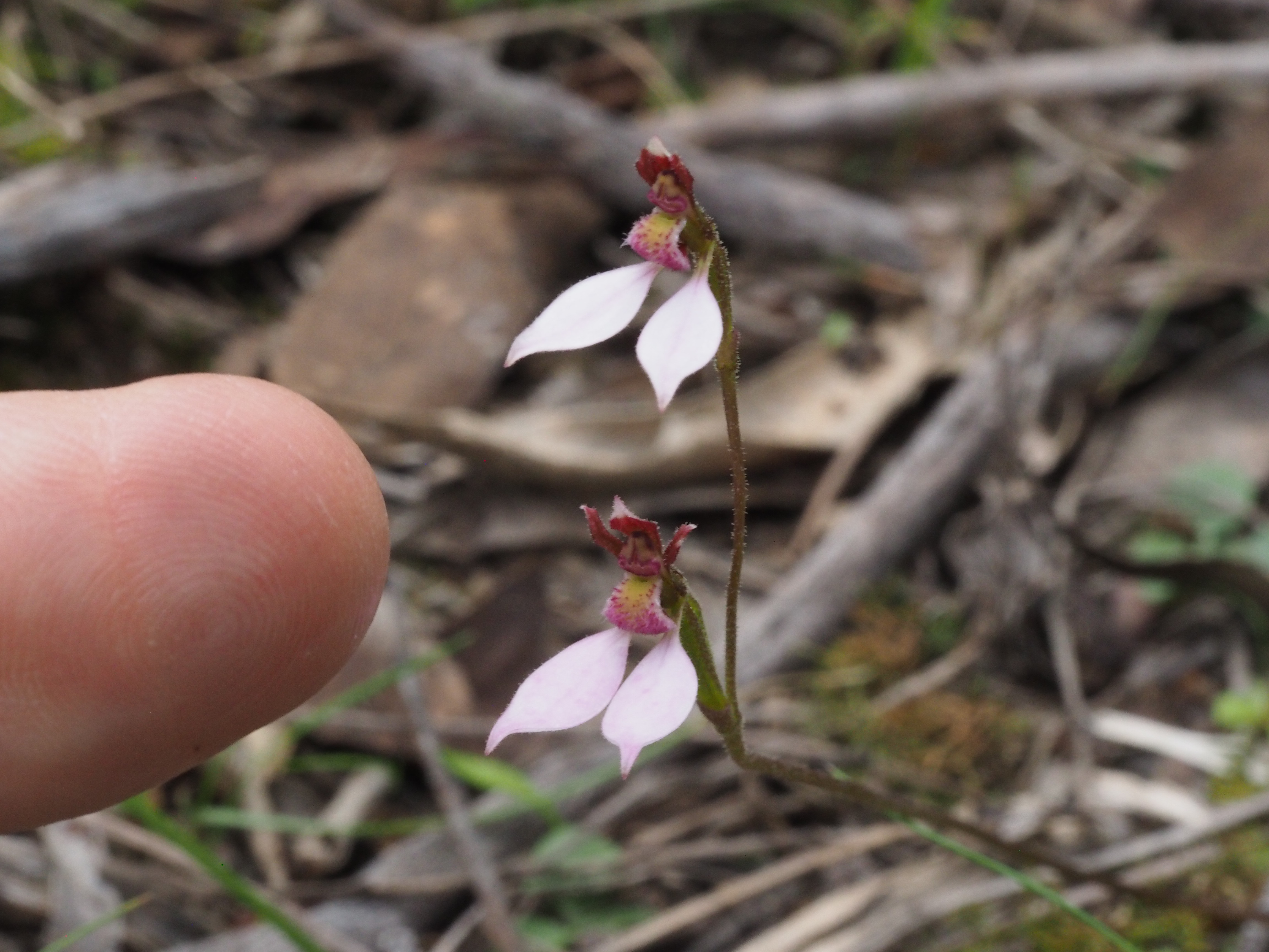 Eriochilus cucullatus scaled with fingertip